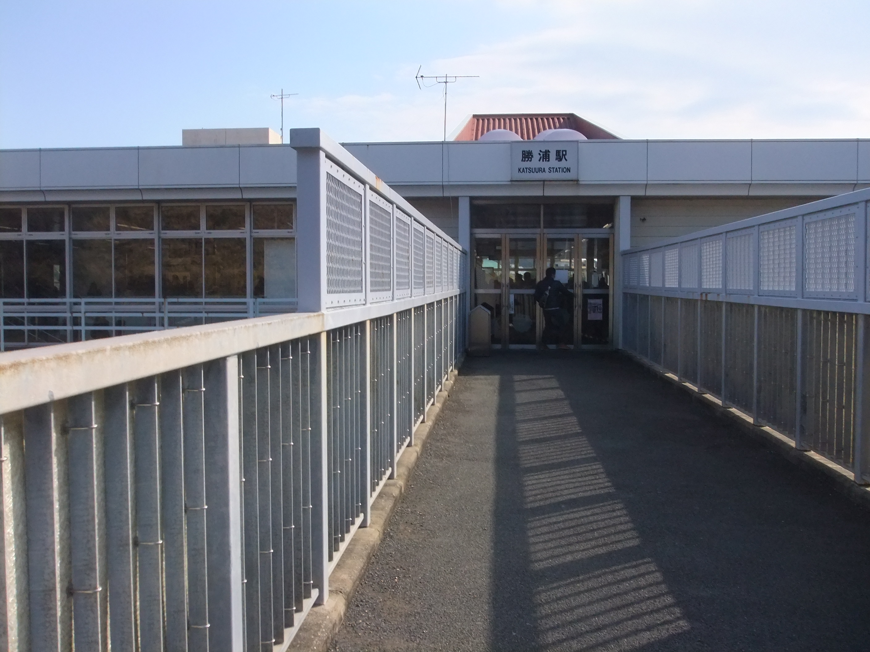 The north entrance to Katsuura Station in Chiba Prefecture, Japan